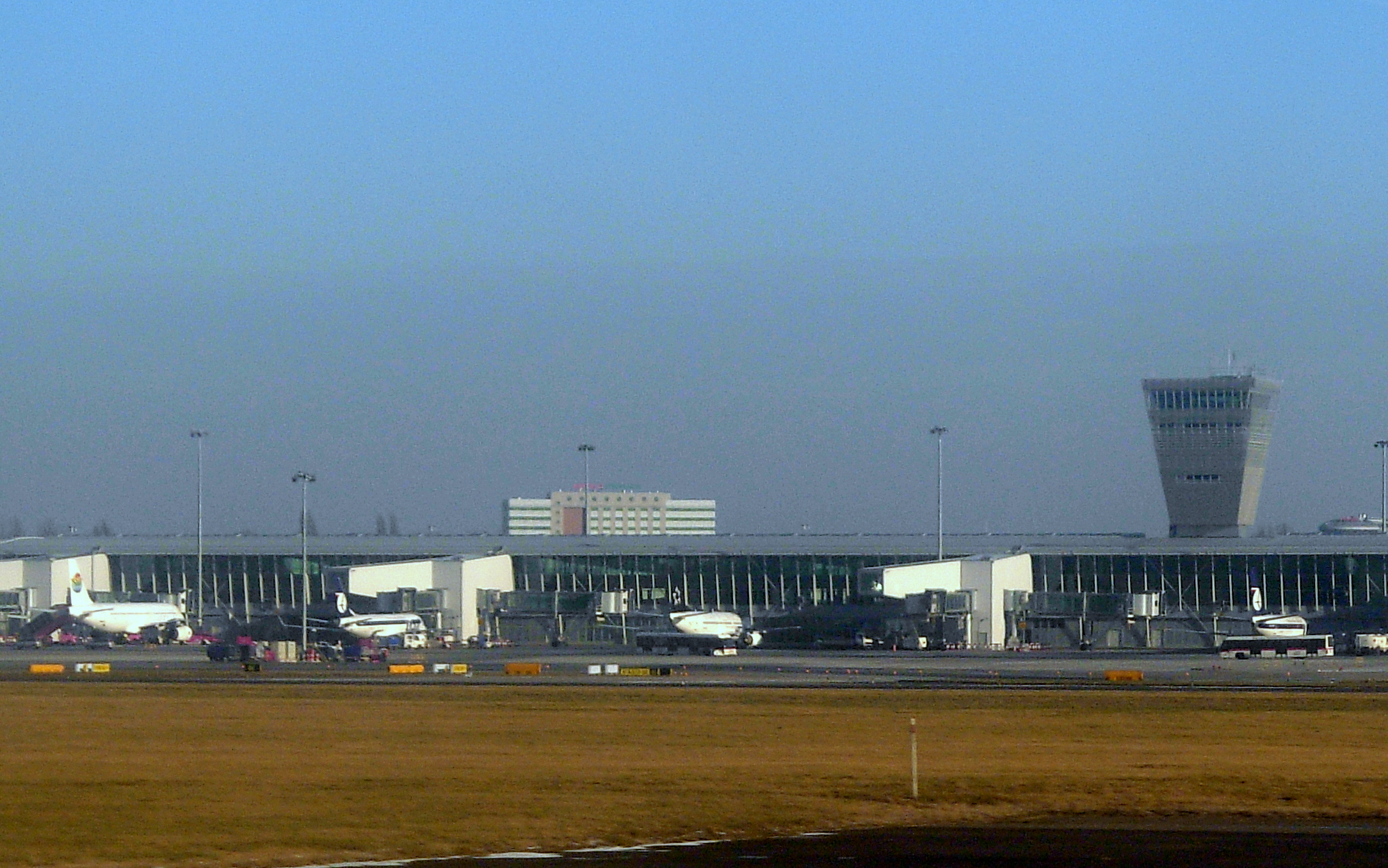 Photos from my flight Kraków-Warsaw in January 2008.